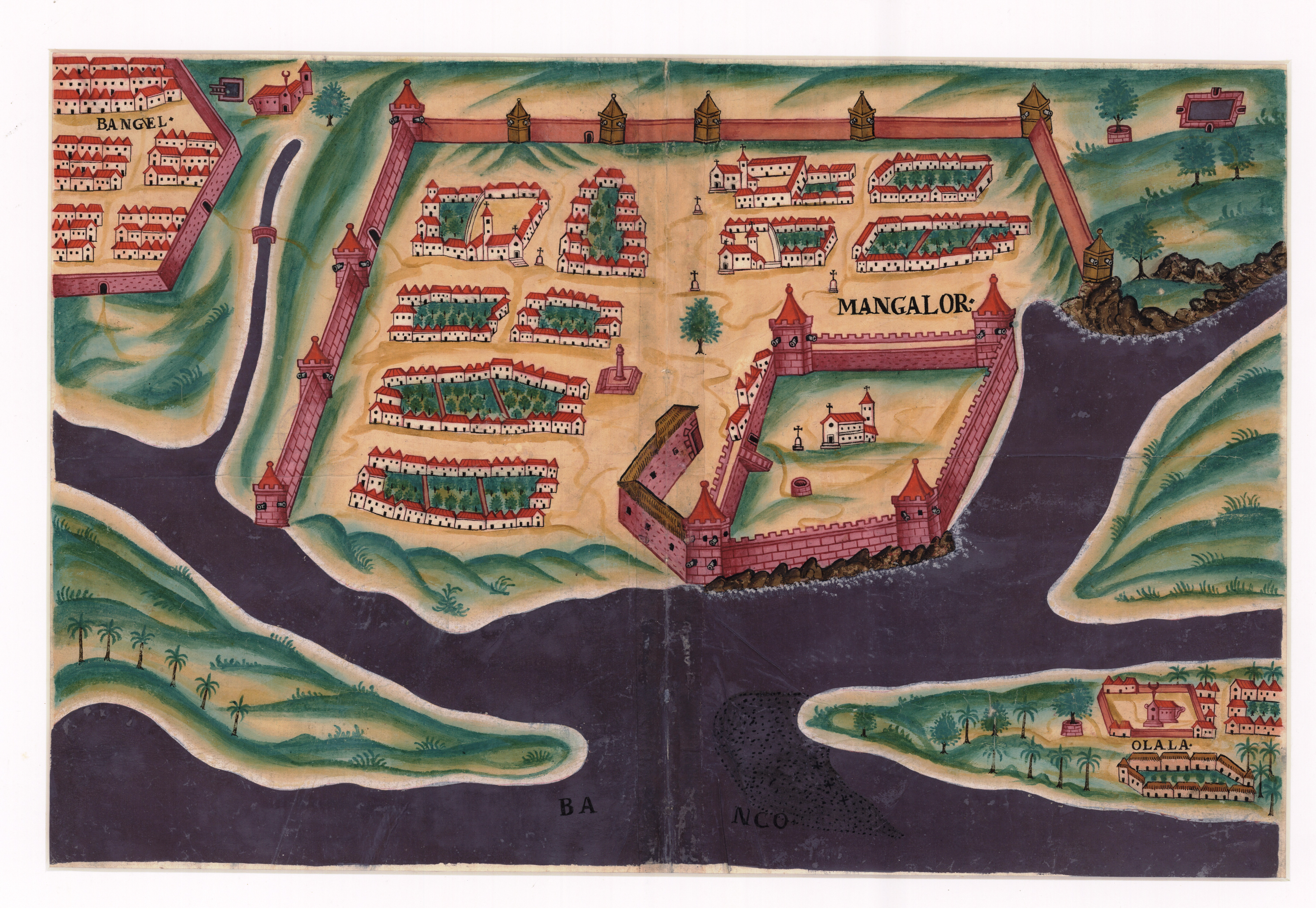 Portuguese watercolour illustration of the fortress of Mangalore, erected in 1569 by order the Viceroy of India Dom Luís de Ataíde. Depiction by Pedro Barreto de Resende made in 1635, featured in the Livro das Plantas de todas as fortalezas, cidades e povoaçoens do Estado da Índia Oriental by António Bocarro, now found at the public library of the city of Évora, in Portugal.